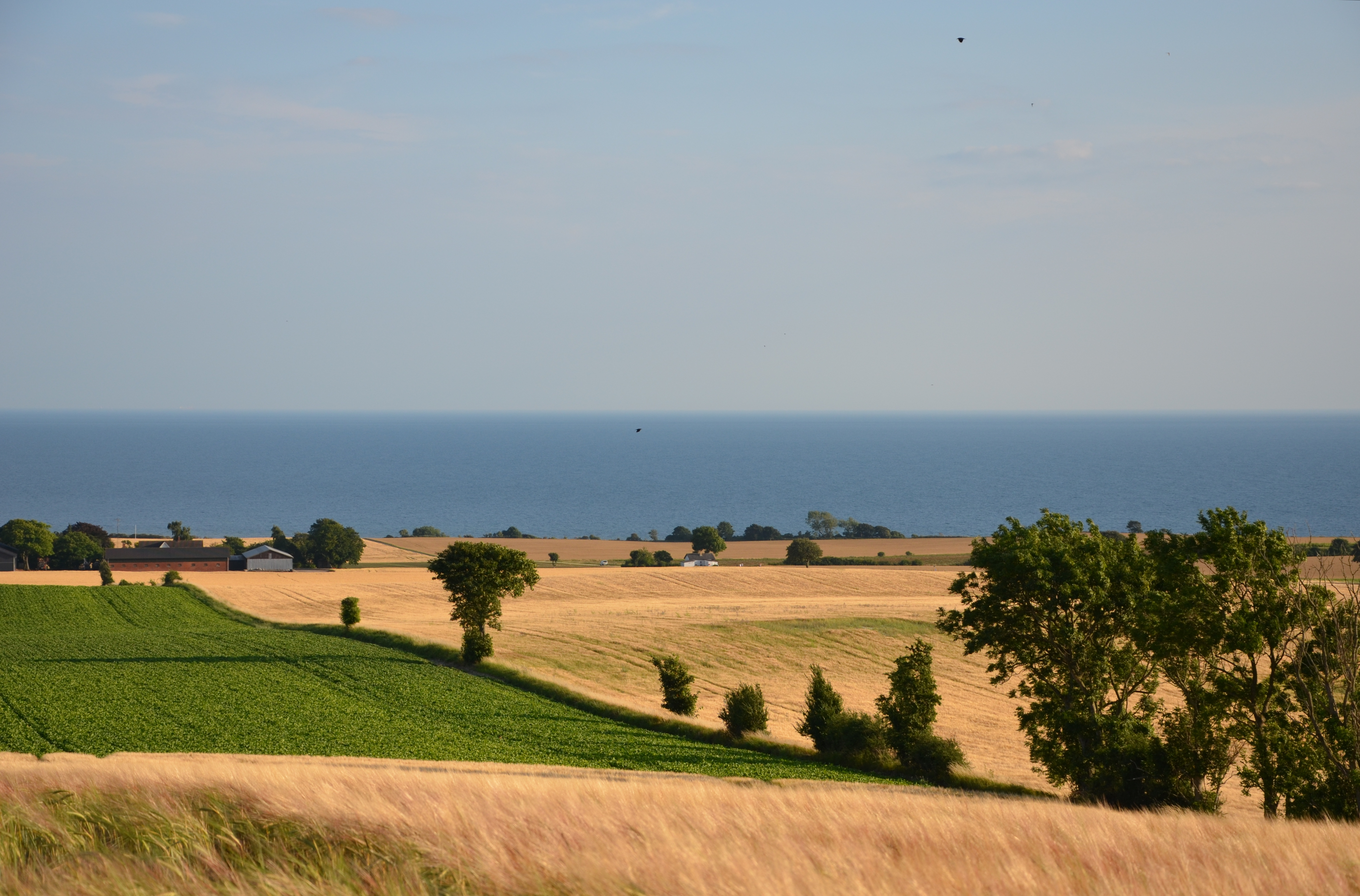 Summer View from Møn over the Baltic Sea with grain fields